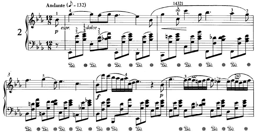 Beginning of the Nocturne Op. 9, No. 2 by Fryderyk Chopin.